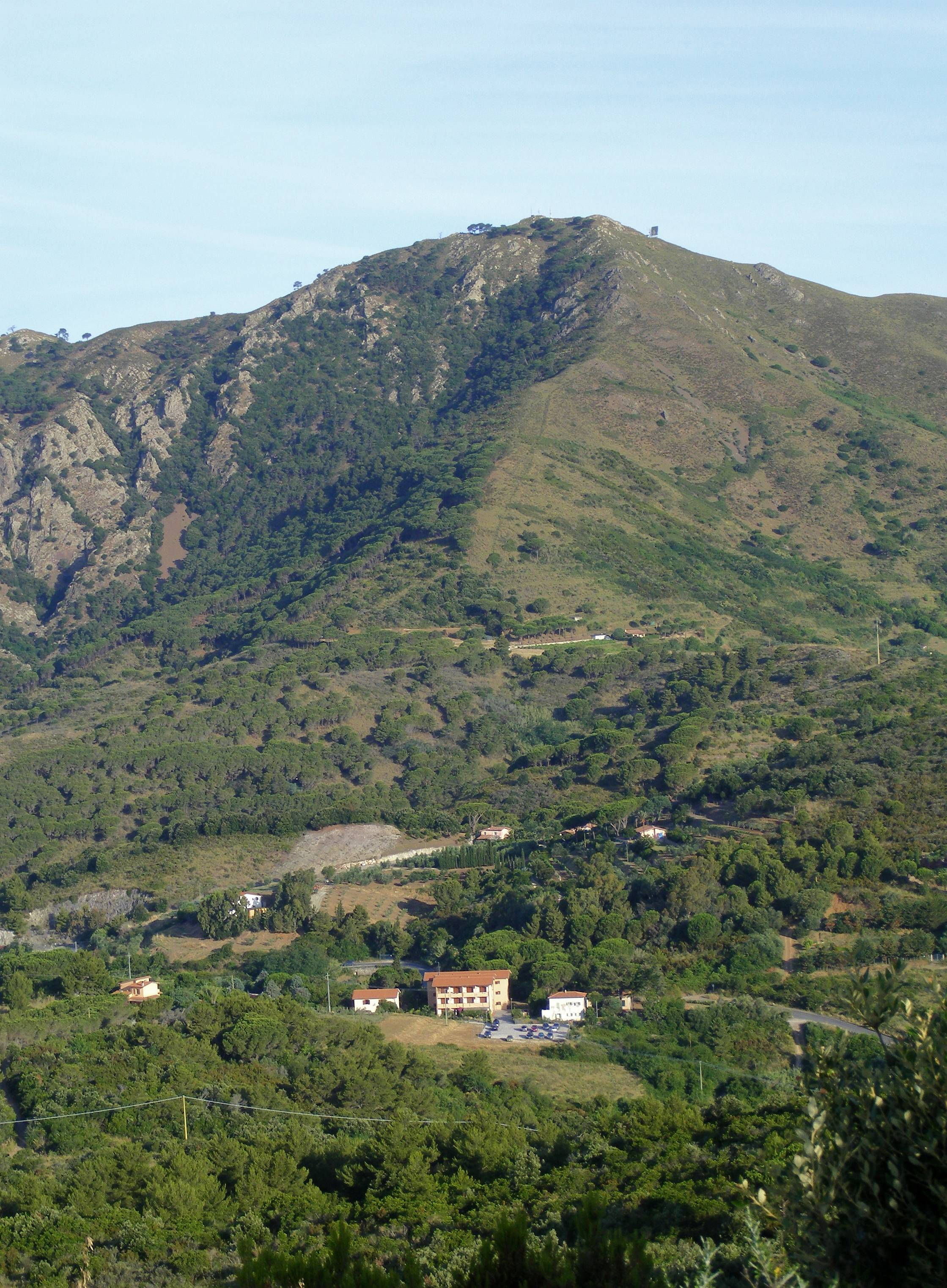 Cima del Monte (516 m) as seen from Monte Arco; Isola d'ELba, LI, Italy